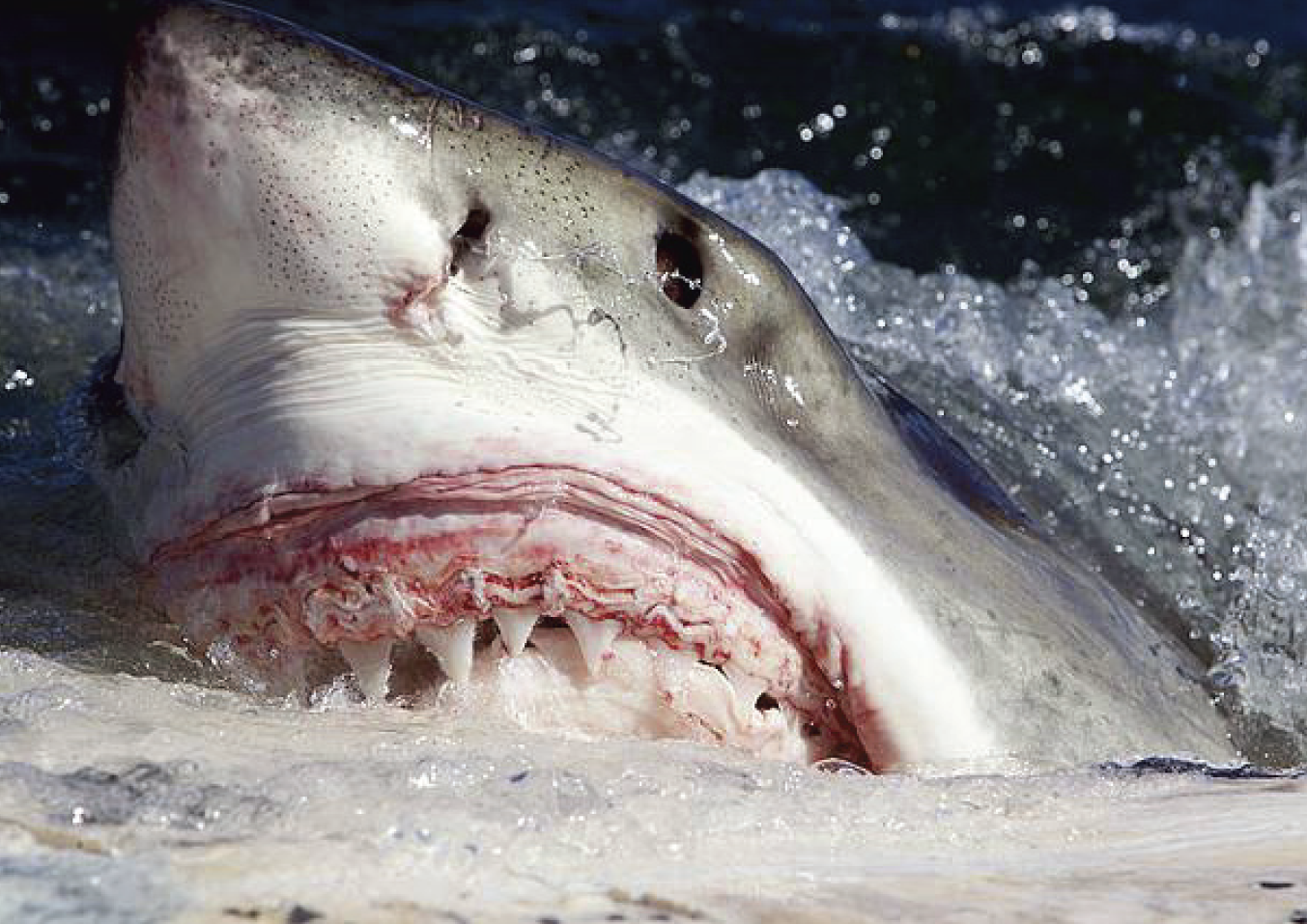 Unique behavior employed by white sharks during scavenging forays on whale carcasses in False Bay, South Africa. A 4.5 m white shark (Carcharodon carcharias) removes a 20 kg chunk of flesh, sinew and blubber by performing lateral headshakes without employing protective ocular rotation.